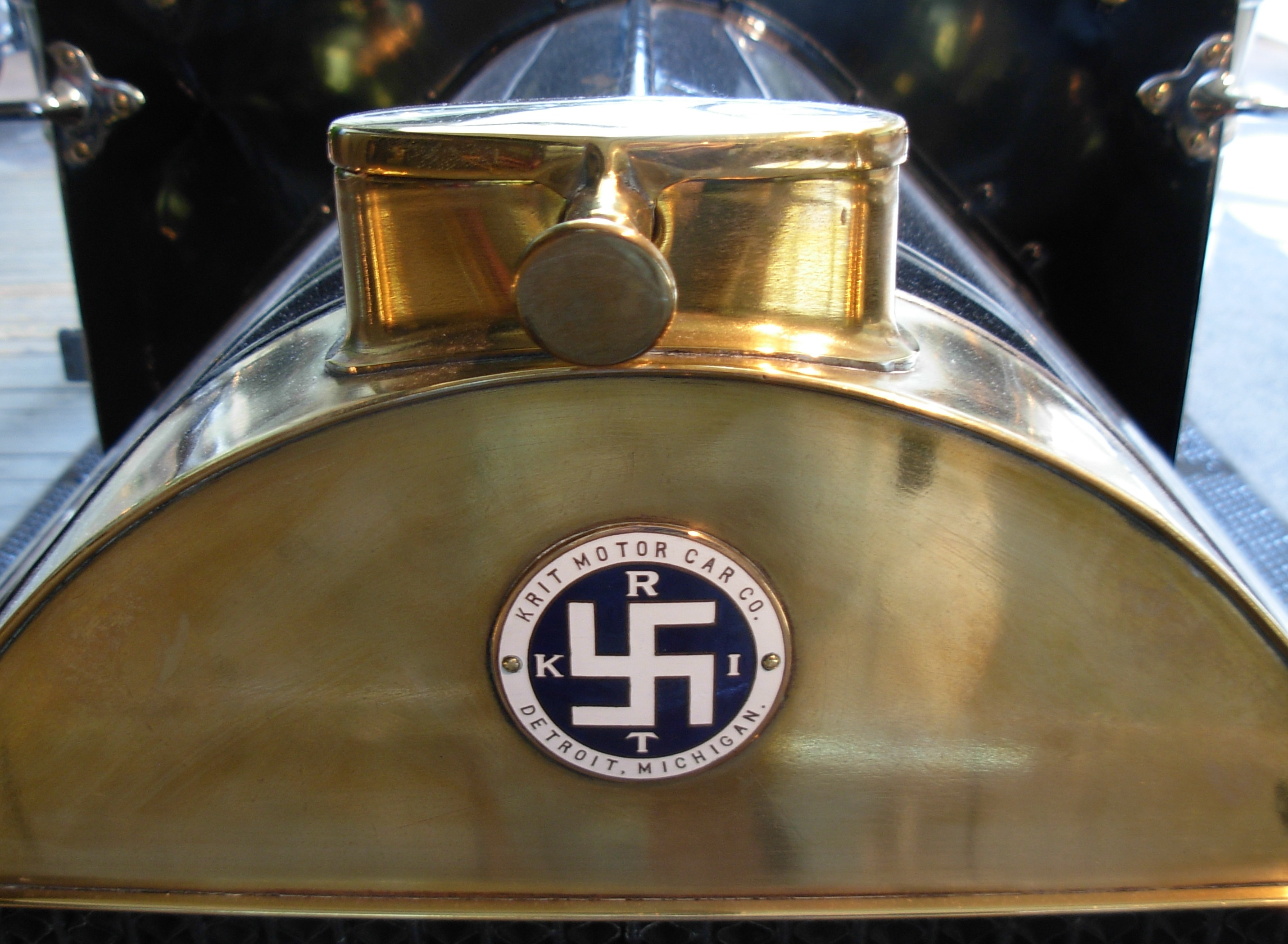 1913 K-R-I-T "KT" 5-Passenger Touring National Automobile Museum, Lake St, Reno, Nevada, USA.